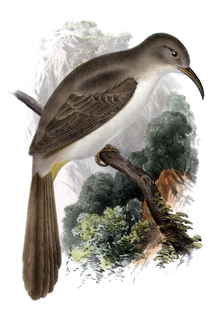 Le Conte's Thrasher, Toxostoma lecontei, hand-colored lithograph